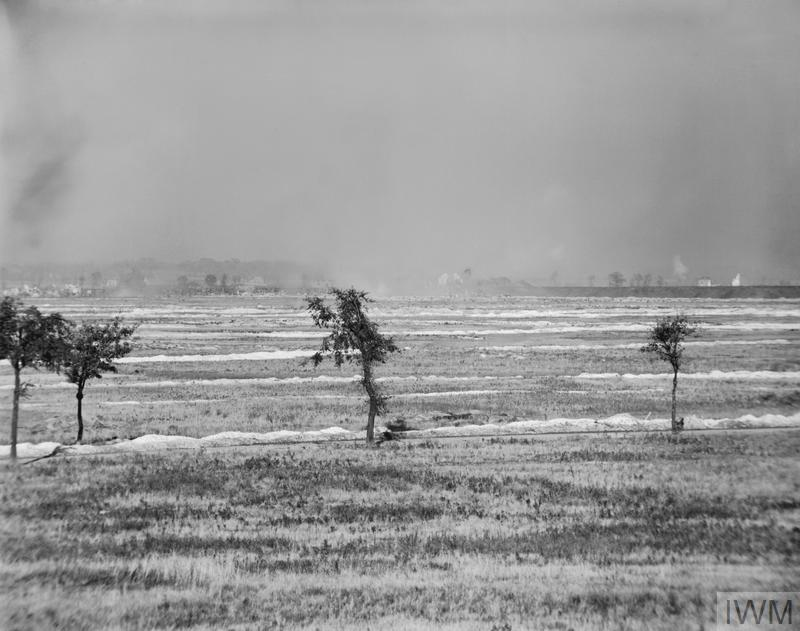 The First World War: Battle of Loos; British attack on the Hohenzollern Redoubt by the 46th (North Midland) Division, Territorial Force. Photograph shows a cloud of smoke and gas in the centre and on the left.